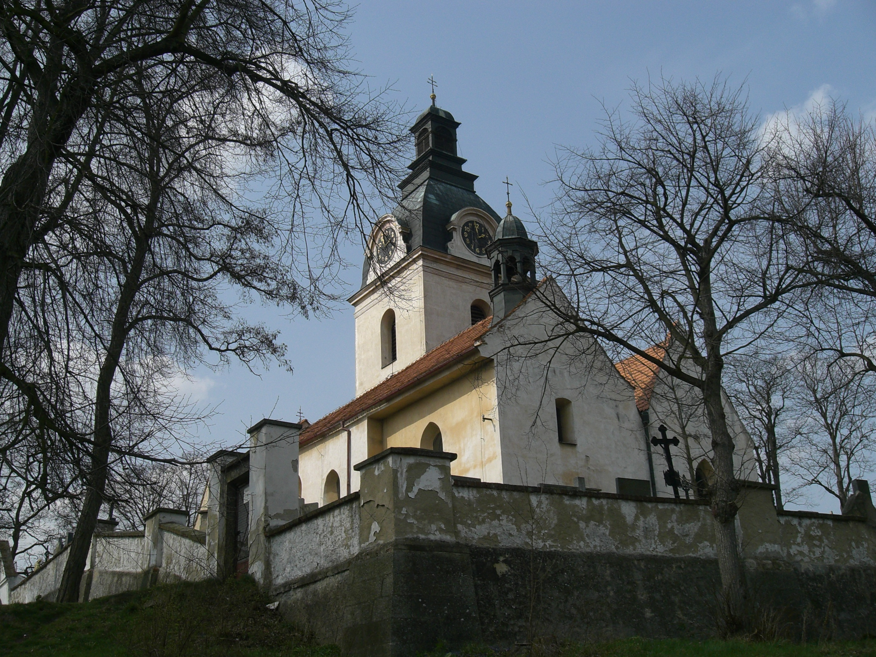 Putim village in Písek district, Czech Republic. Church os Saint Lawrence with cemetery.